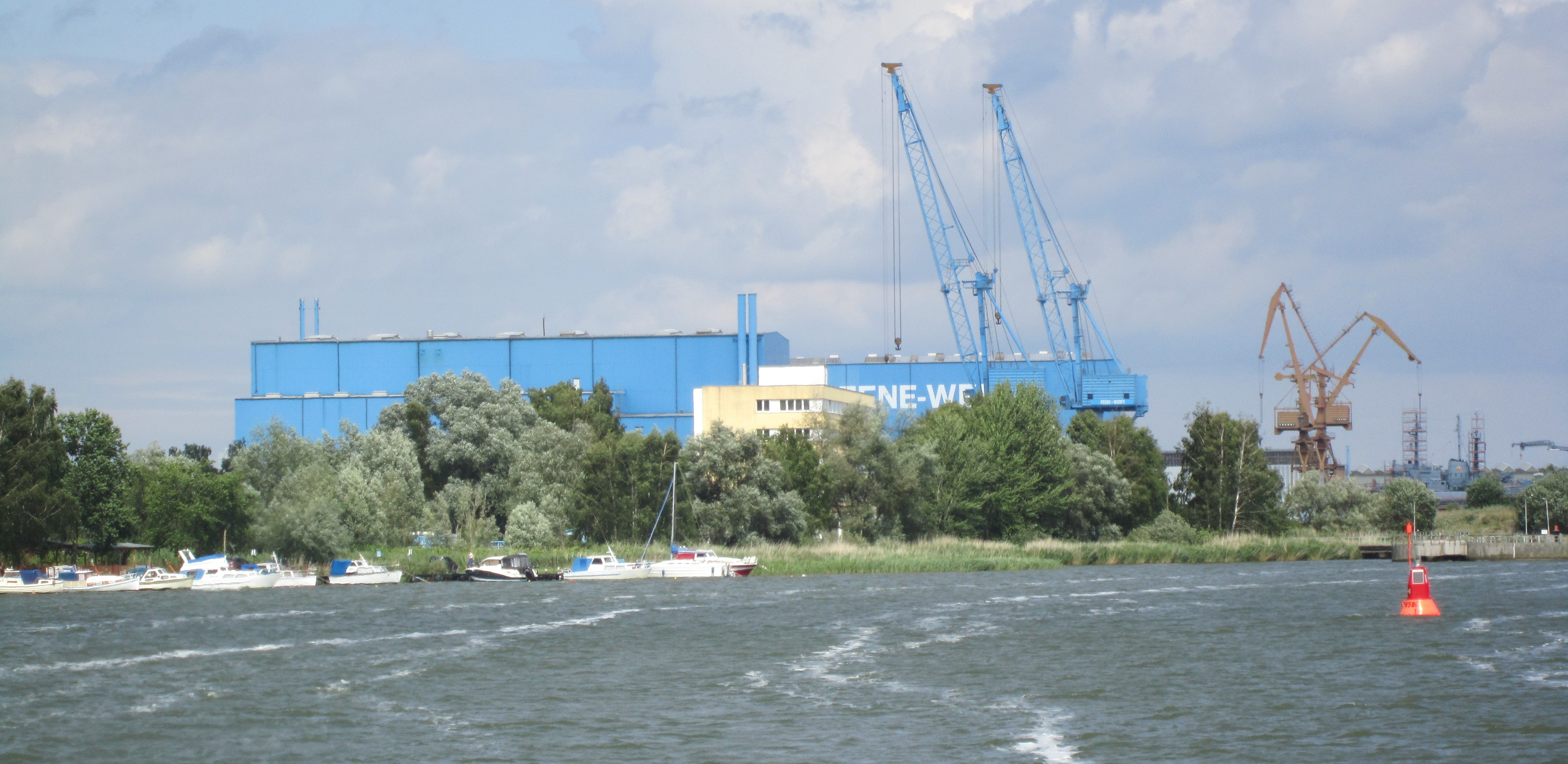 Shipyard "Peene-Werft" on the bank of the Peenestrom in Wolgast